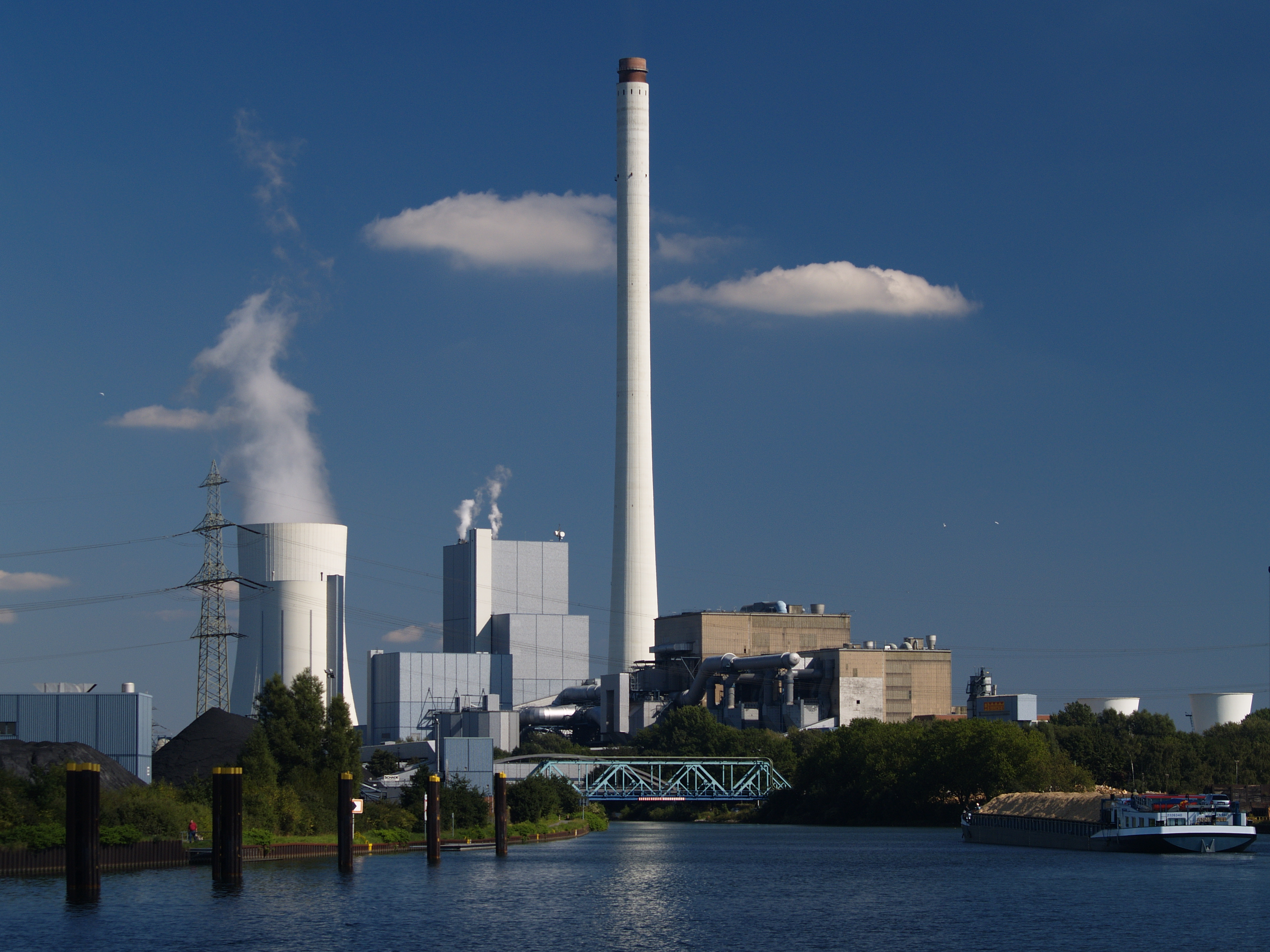 The Rhein-Herne-Kanal east of lock Wanne-Eickel with a ship, load wood chips, near Wanne Osthafen and the coal power plant STEAG.